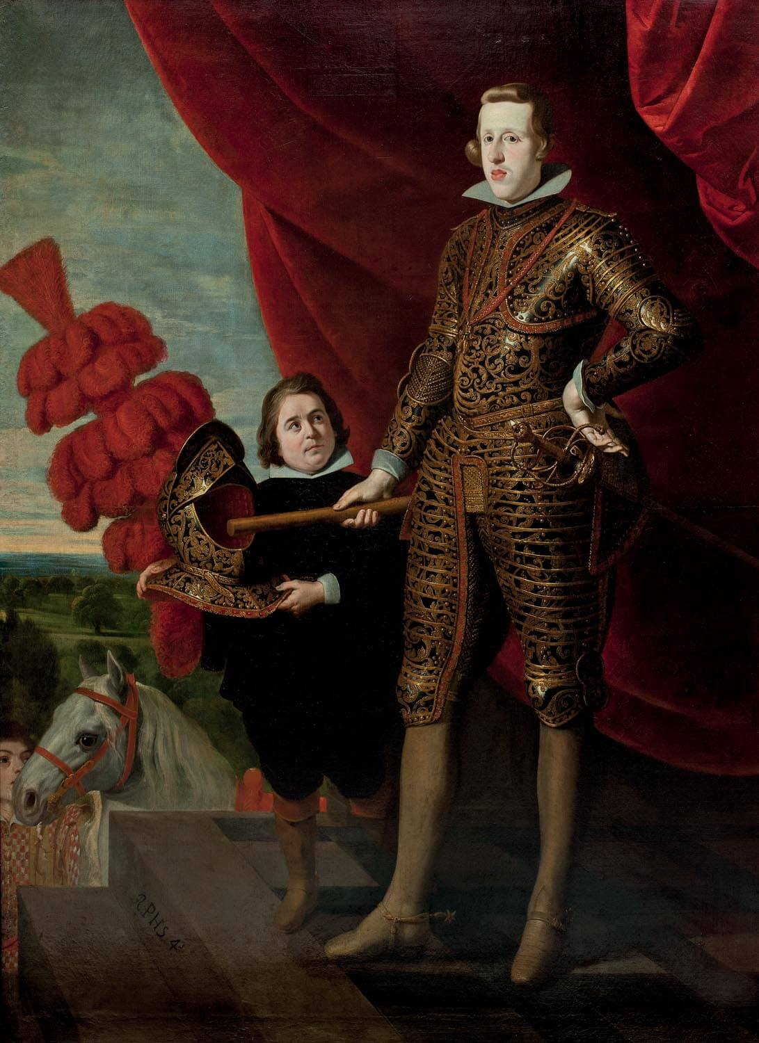 Philip IV (1605–1665) with a dwarf